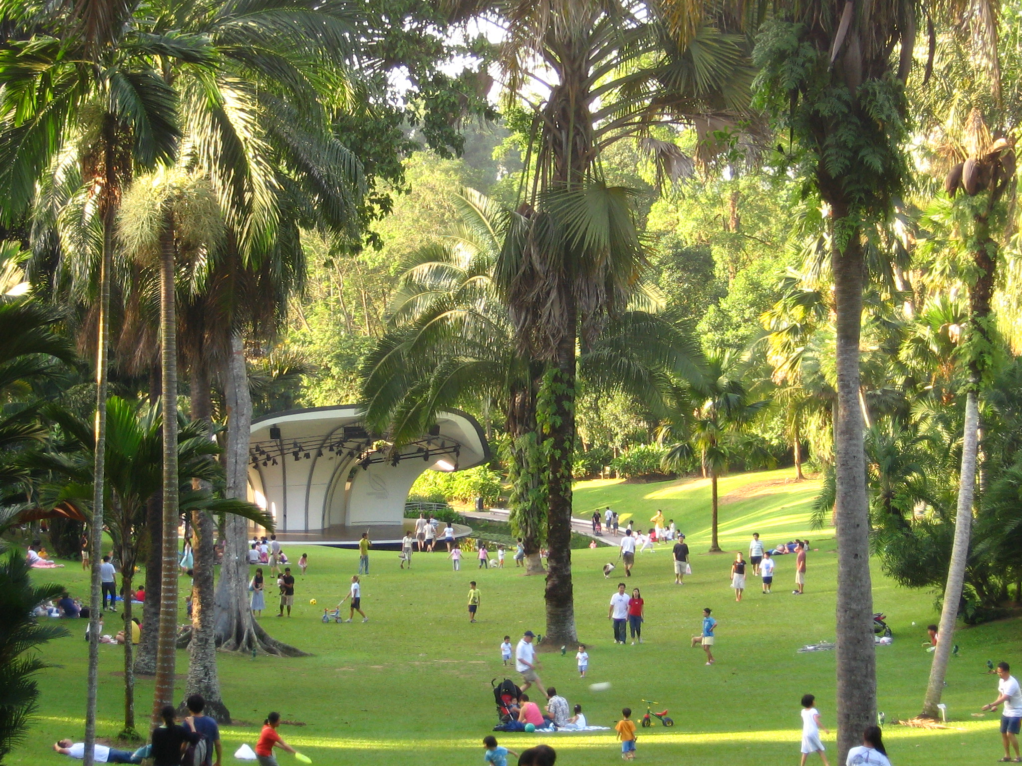 Palm Valley in the Singapore Botanic Gardens, a large lawn filled with palms, popular with picnics and enjoying concerts in Symphony Lake.